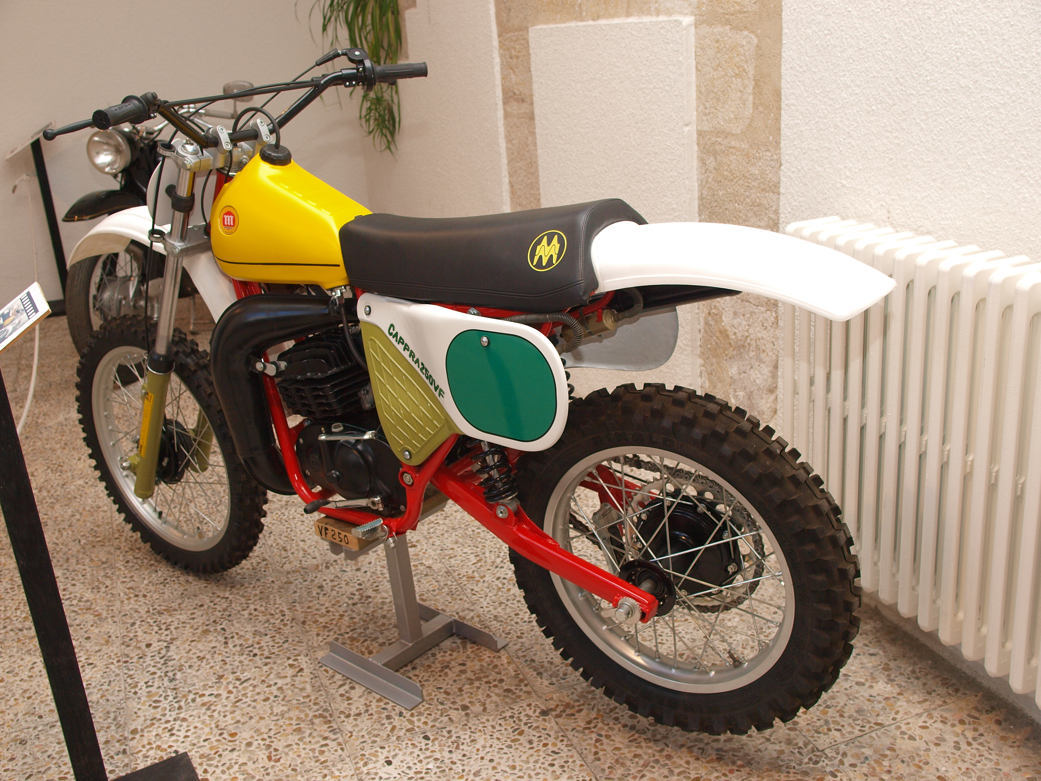 Montesa Cappra VF 250cc (year 1980) at exhibition in Zamora (Spain) in the III Show of the Asociación Motociclista Zamorana (Zamora's Motorbike Association), February 2013